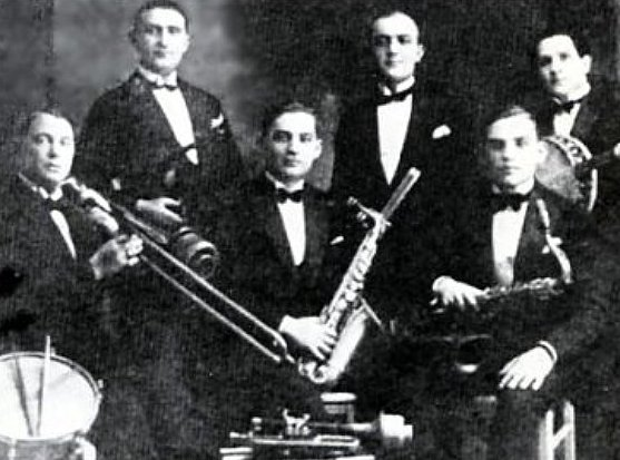 Orchestra of Henryk Gold and Jerzy Petersburski in 1930s. Published in Poland in an unsigned promo leaflet